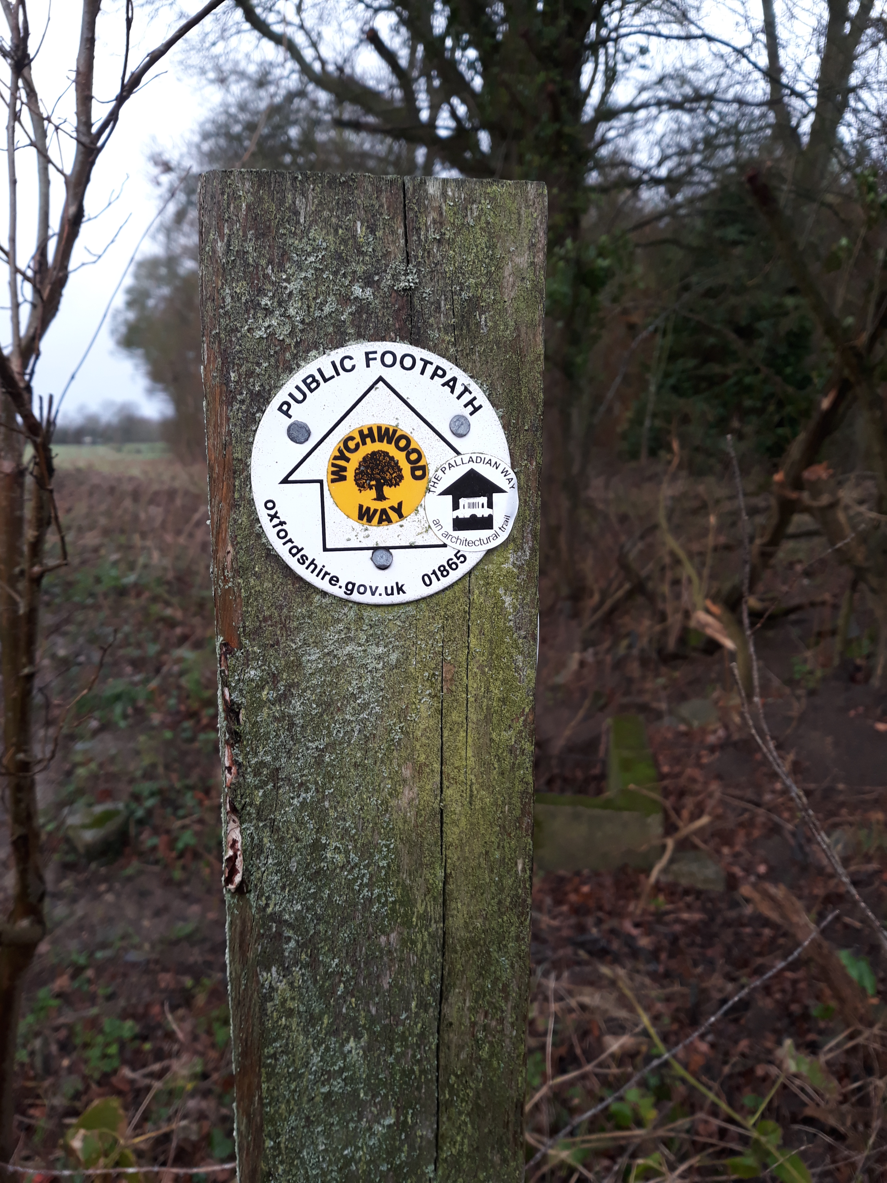 Wychwood Way footpath marker on a fencepost neare Combe, Oxfordshire, England.